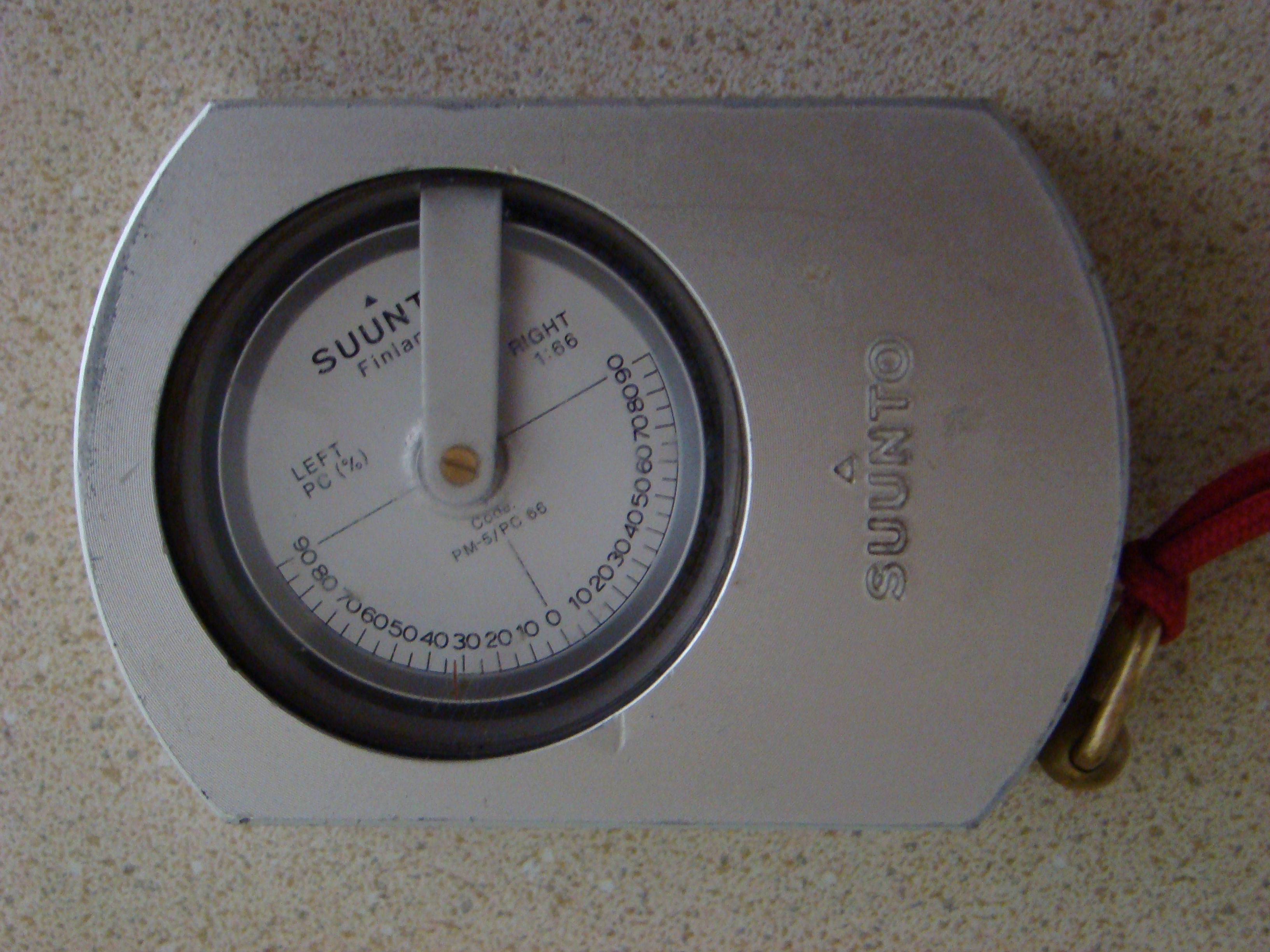 A forestry SUUNTO-clinometer.